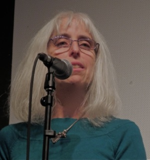 Willa Schneberg Headshot